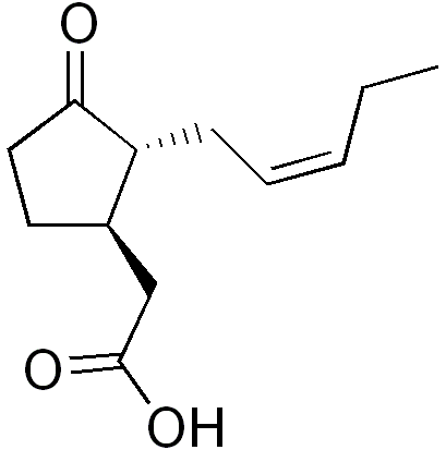 chemical structure of jasmonic acid